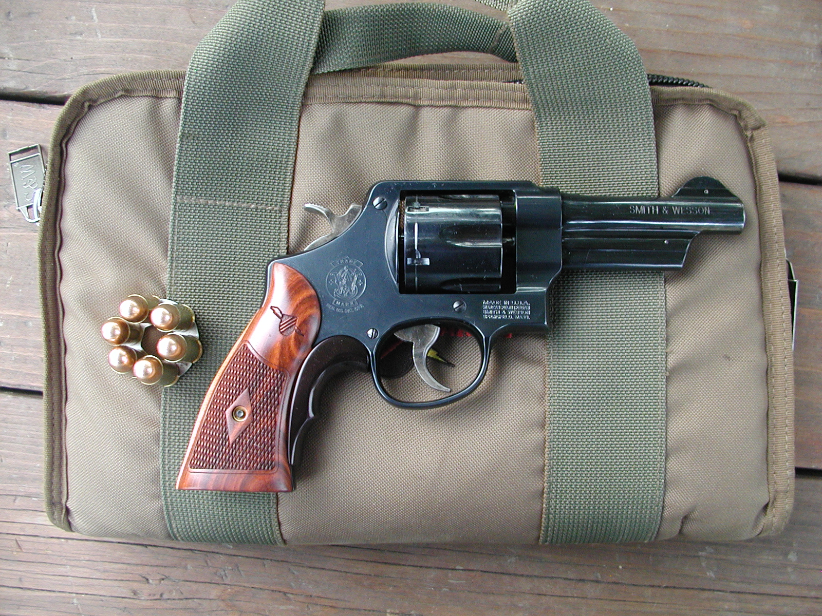 Smith & Wesson 22-4 Thunder Ranch Revolver. It was bought used and included the grip adapter.